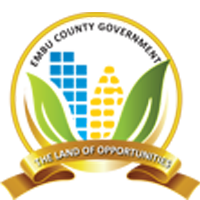 Logo of the Embu County Govt Kiswahili: Nembo ya Serikali ya Kaunti ya Embu